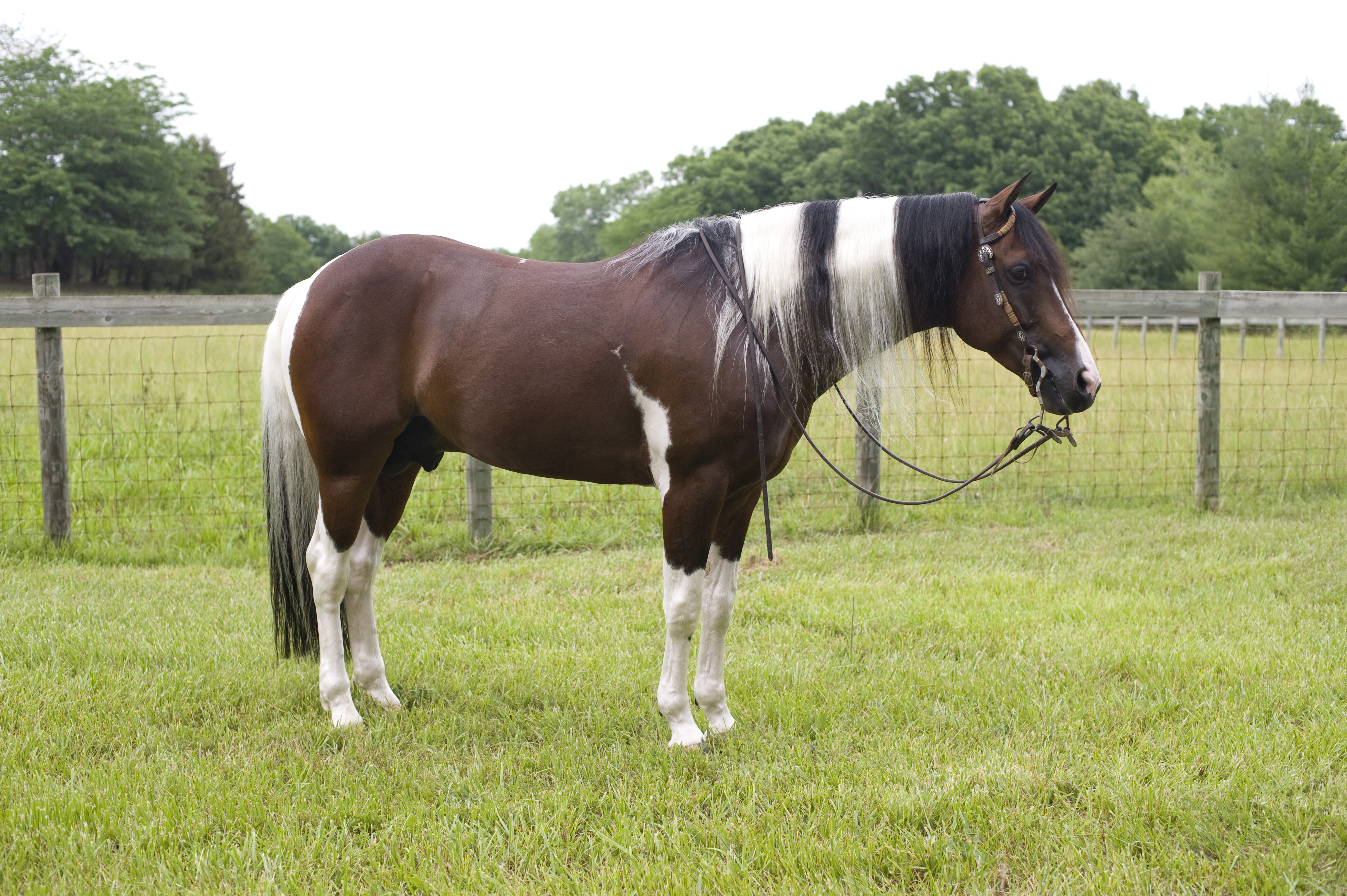 Dunnits QT Dynasty APHA